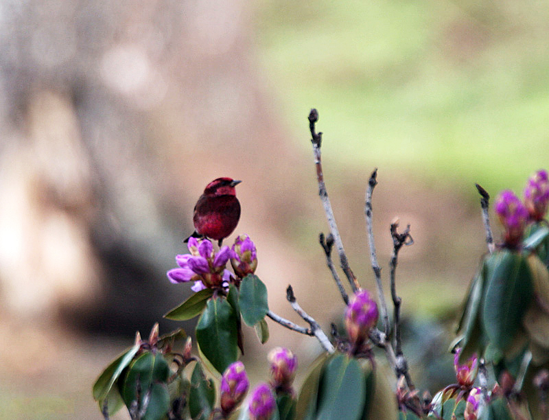 Dark-breasted Rosefinch Carpodacus nipalensis in Kullu District of Himachal Pradesh, India.